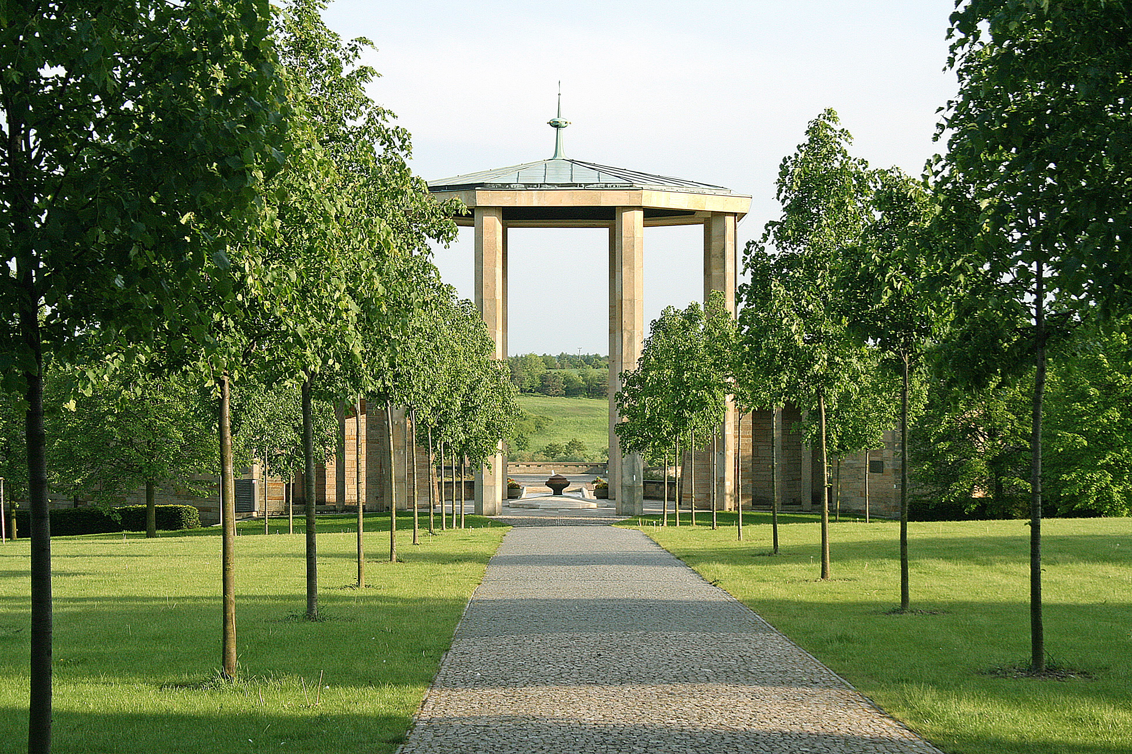 memorial place Lidice / Czech Republik.